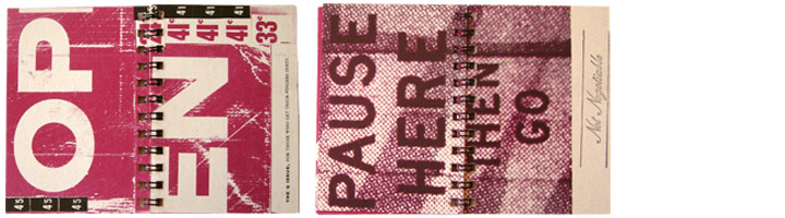 qwerty issue1